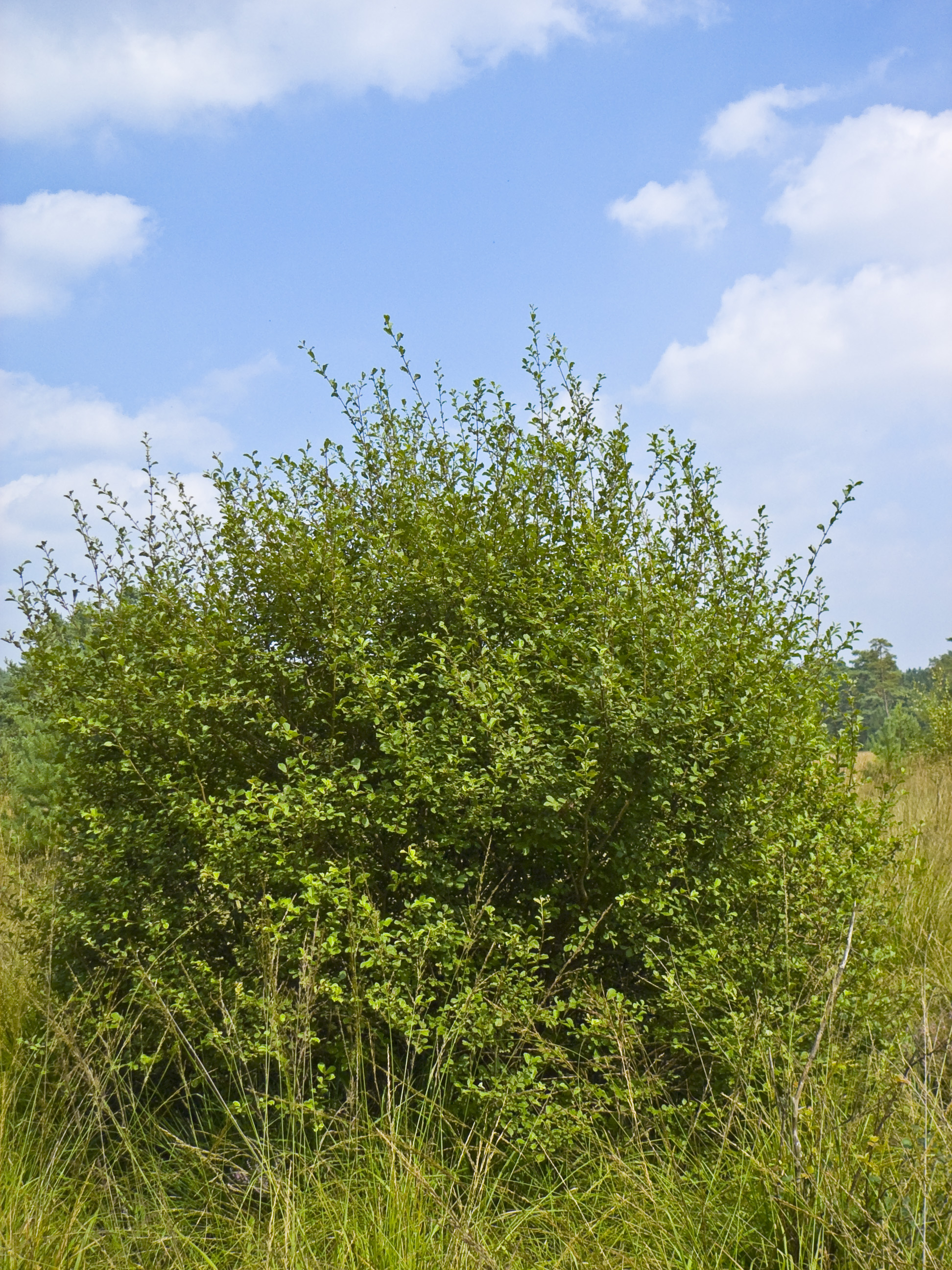 Salix aurita, Location: Franzosenwiesen, Burgwald, Hesse, Germany